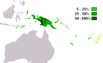 Distribution of haplogroup M of Y-chromosome, that spreads from Maluku to Fiji and Tonga.